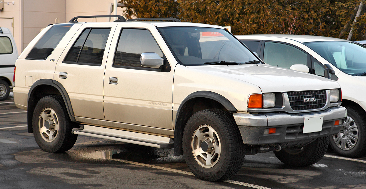 First generation Isuzu Mu Wizard, 3.1D Turbo White Limited ( UCS69GW / June 1996 )